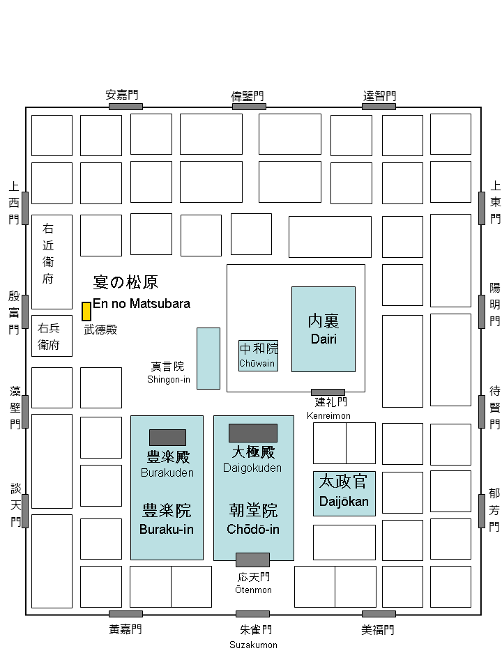 Plan of the Heian Palace or Daidairi based on maps in published works Category:Maps of the history of Japan